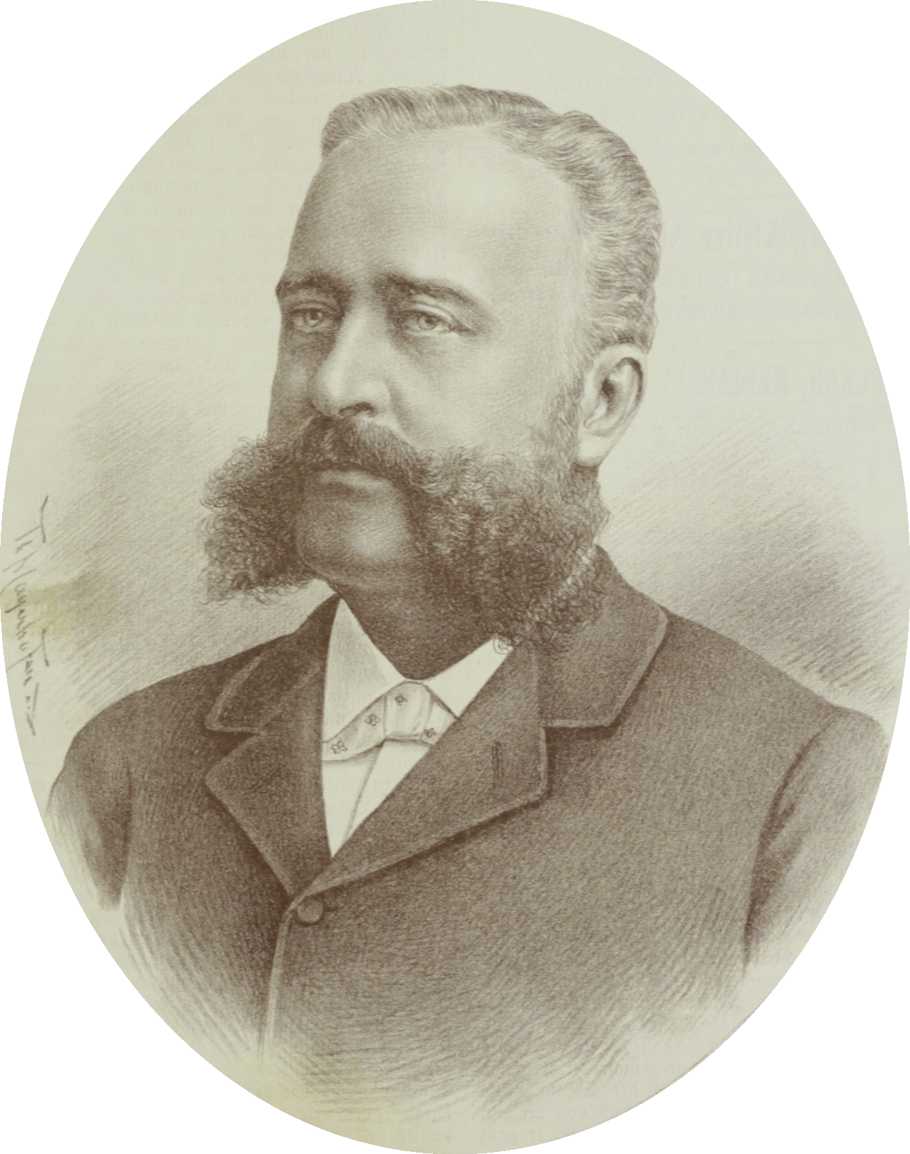 Agenor Gołuchowski the Younger (1849–1921), Polish aristocrat, Austrian-Hungarian politician Agenor Graf von Golochowo-Golochowski, k. und k. Minister des Kaiserlichen Hauses und des Aeußeren